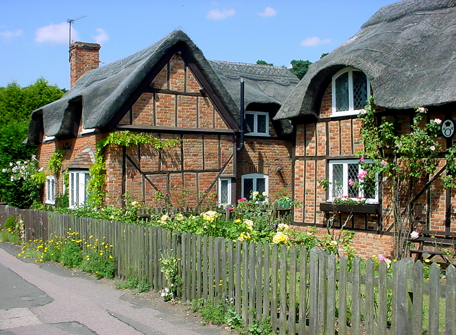 Thatched cottages in Woburn Street, Ampthill, Bedfordshire, UK. Cottages constructed 1812-1816. Photo taken by APB-CMX, July 2002